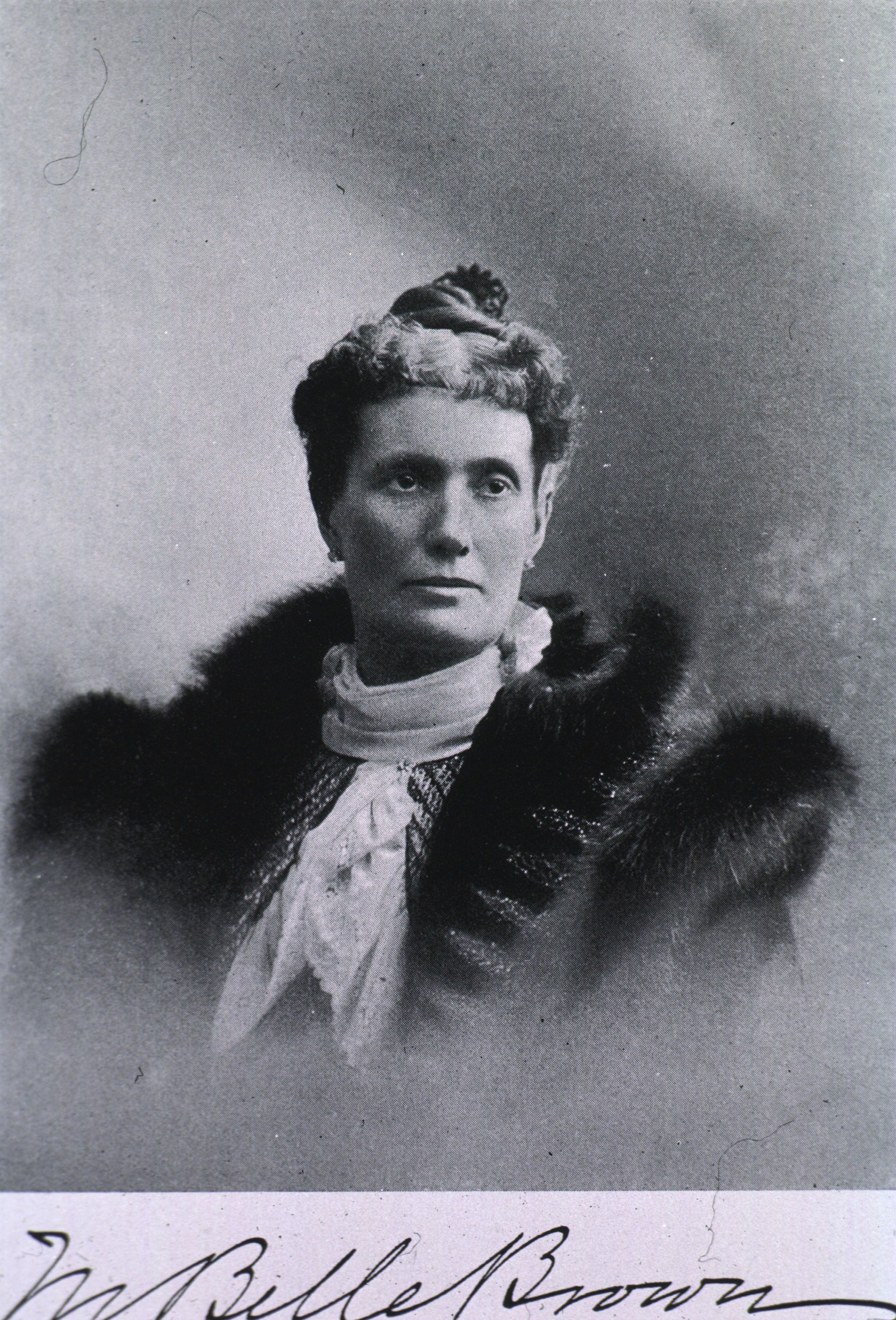 [M. Belle Brown] Publication: [18--] Format: Still image Genre(s): Portraits Abstract: Head and shoulders, wearing high collar and furred coat. Rights: The National Library of Medicine believes this item to be in the public domain. (More information) Extent: 1 photomechanical reproduction Technique: halftone NLM Unique ID: 101411046 (See catalog record) NLM Image ID: B03688 Permanent Link